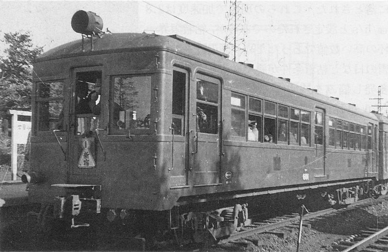 Odawara Express Railway No.601,EMU Type 601